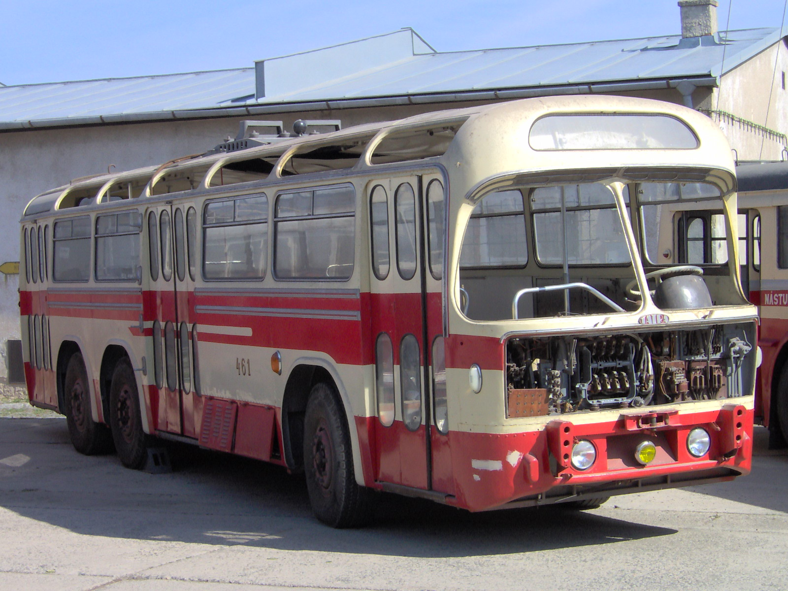 Historical Tatra T 401 trolleybus in Brno (the car come from Praha, now possession of Technical museum Brno)